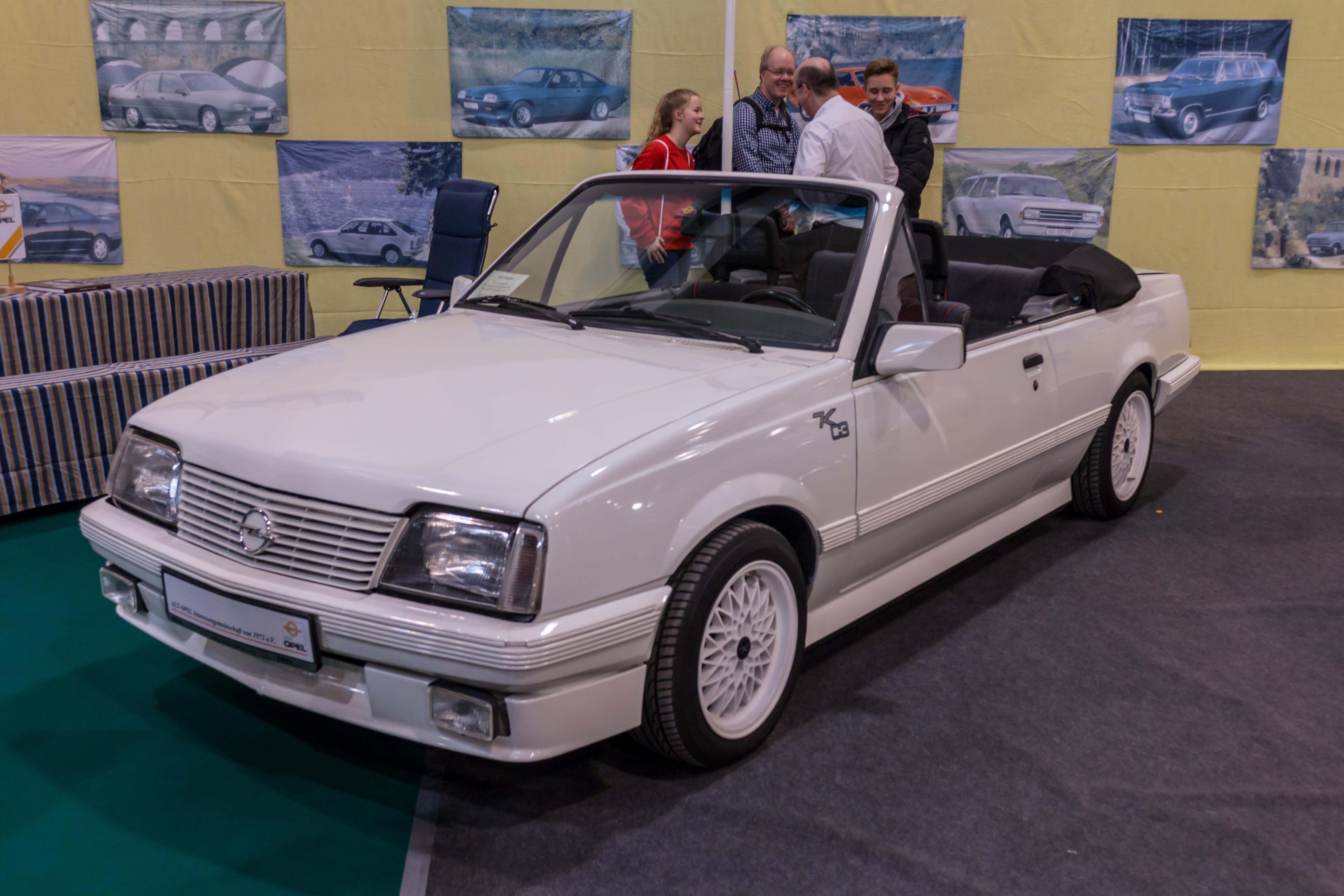 Techno Classica 2018, Essen